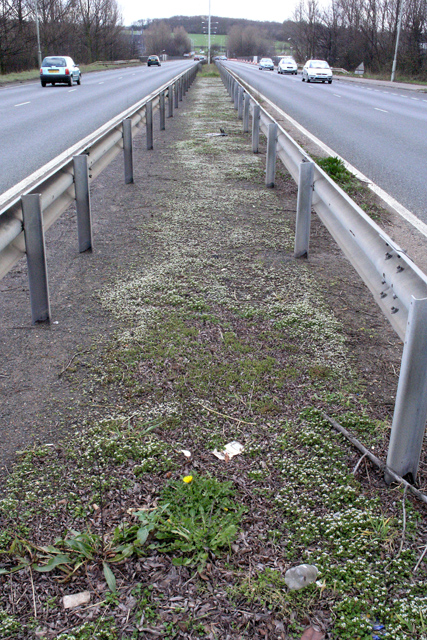 A1120 central reservation This short stretch of dual-carriageway connects the modern A14 to the old Stowmarket to Ipswich road now the B1113